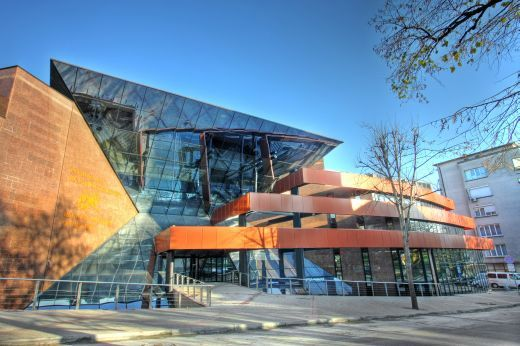 Historical museum Stara Zagora, Bulgaria